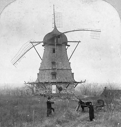 Altered the original photo slightly by cropping, changing to black/white, and fixing the lighting a bit. The old windmill in Lawrence, Kansas. c. 1903.